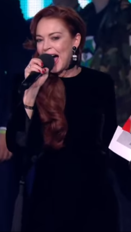 Lindsay Lohan presenting the award for Best Electronic at the 2018 MTV EMAs.